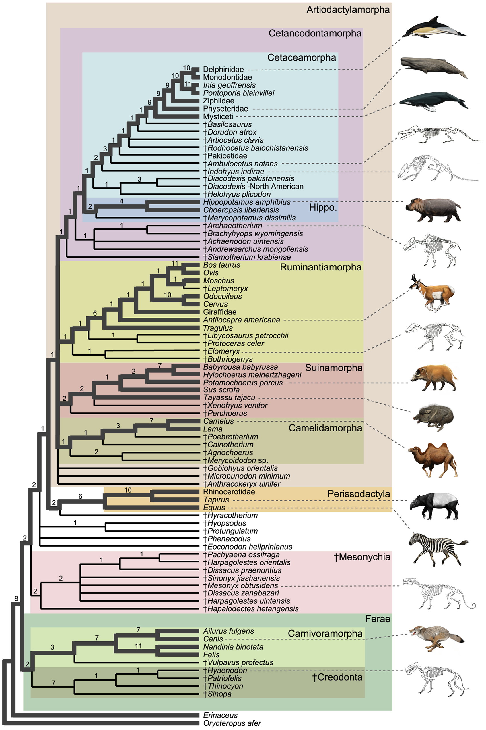 Figure 2. Strict consensus of 20 minimum length trees for the equally-weighted parsimony analysis of the combined data set (57,269 steps). The contents of 12 taxonomic groups, including the total clades Cetaceamorpha and Cetancodontamorpha are delimited by different colored boxes (‘Hippo’ = Hippopotamidamorpha). Lineages that connect extant taxa in the tree are represented by thick gray branches, and wholly extinct lineages are shown as thin black branches. Estimates of branch support scores are above internodes; given the complexity of the data set, these should be interpreted as maximum estimates. Illustrations are by C. Buell and L. Betti-Nash.